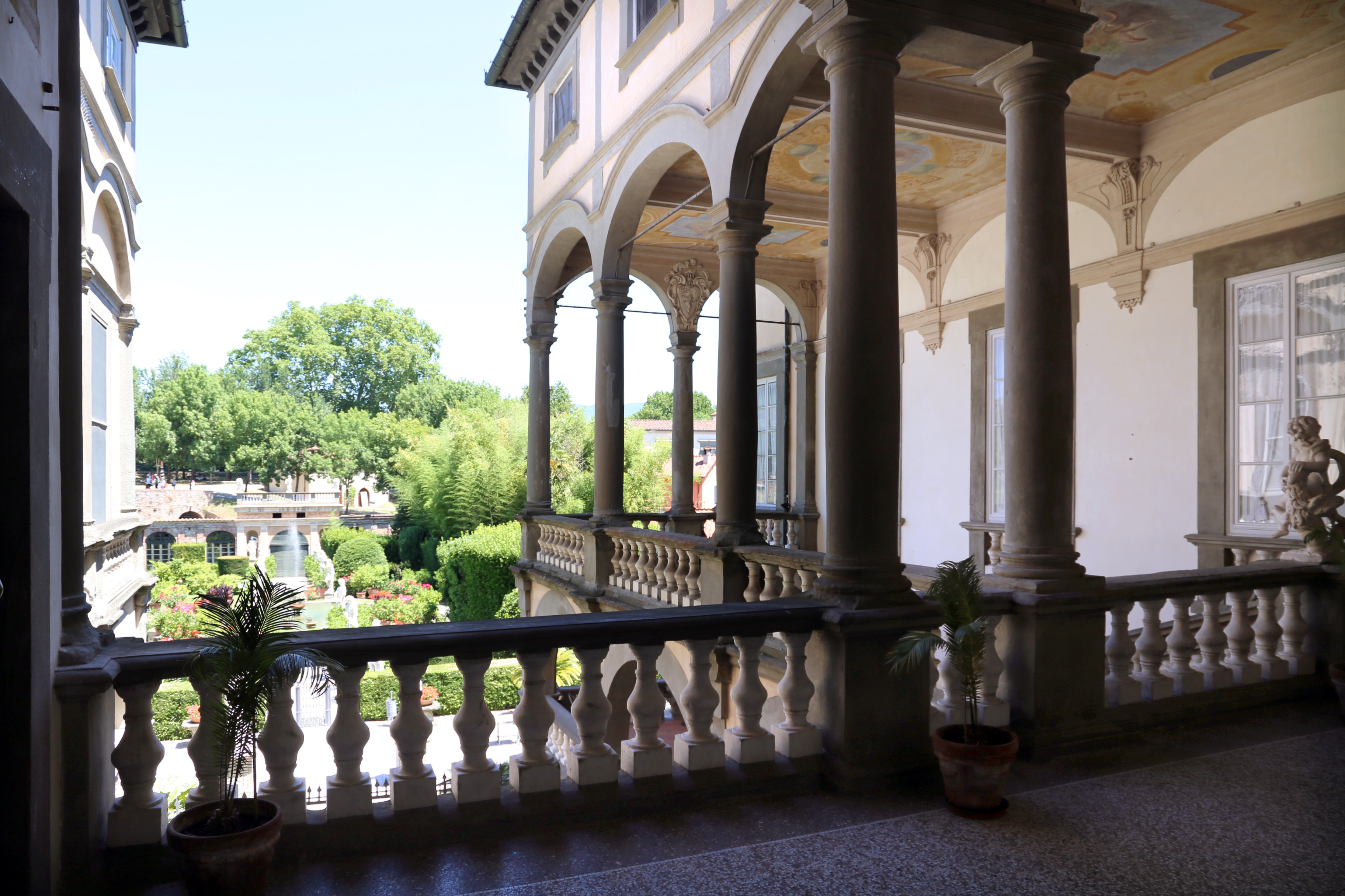 Palazzo Pfanner (Lucca)